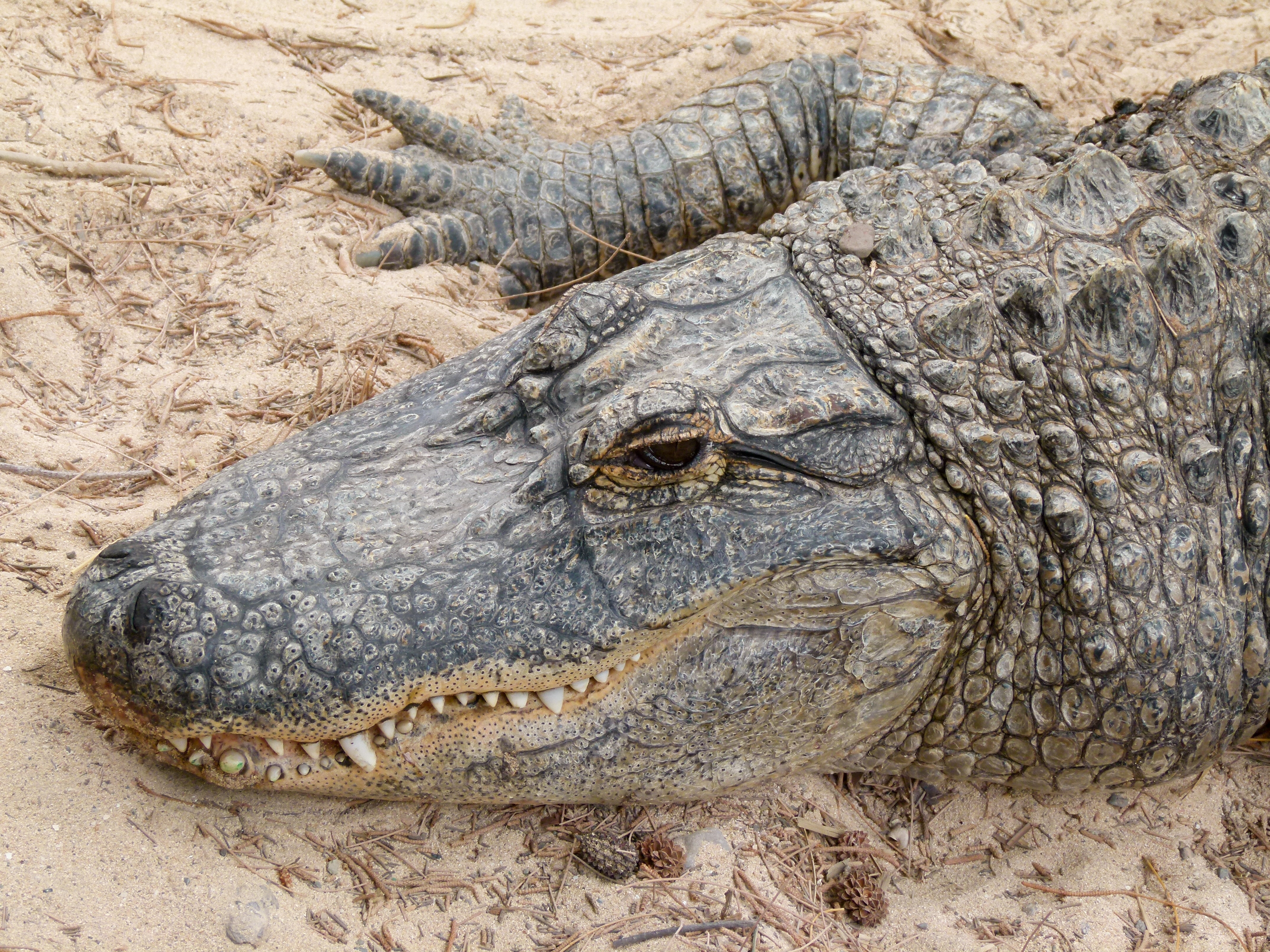 Alligator mississippiensis in the Oasis Park, La Lajita, Pájara, Fuerteventura, Canary Islands, Spain